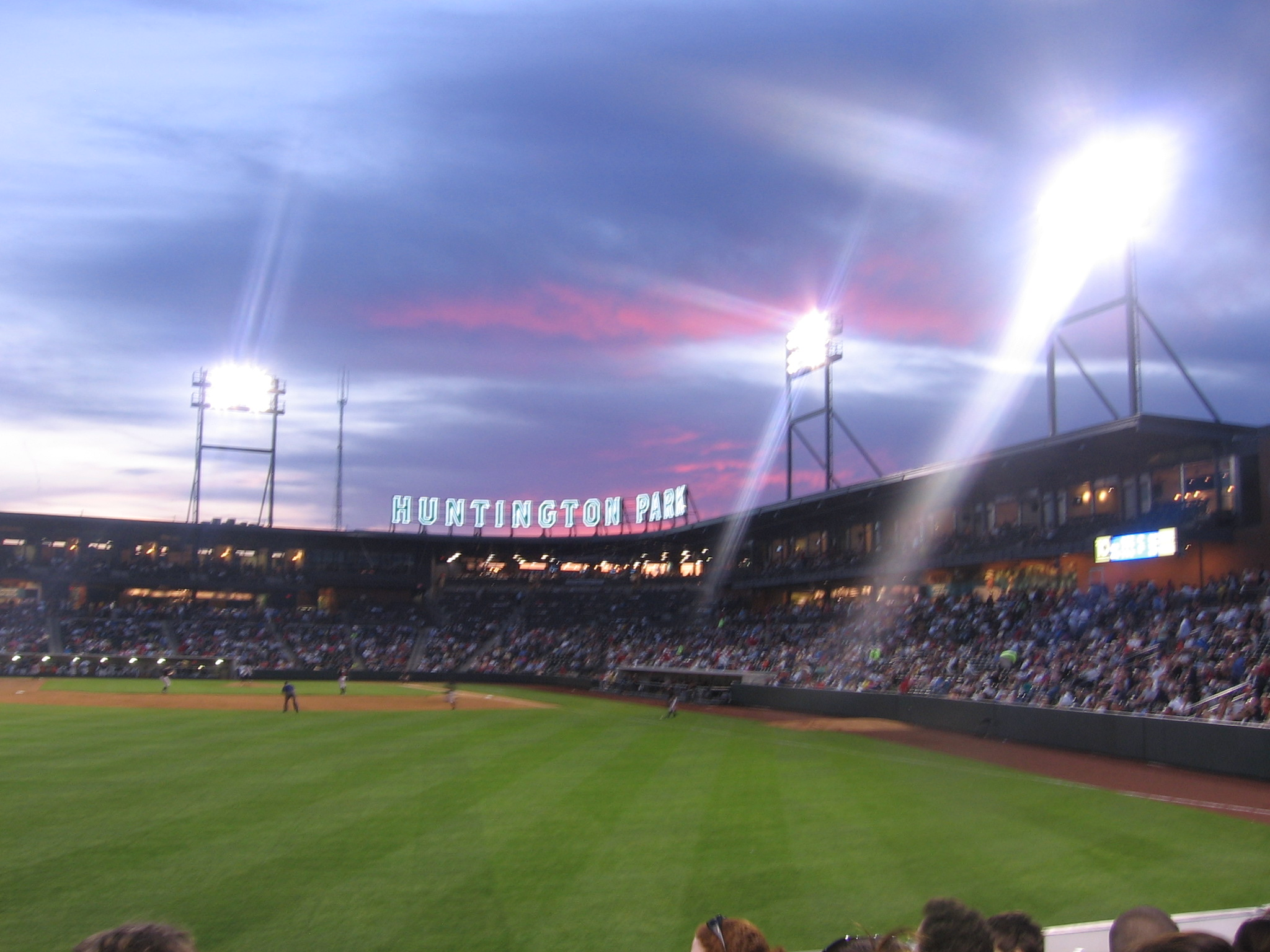 Huntington Park as viewed from the left field bleachers.